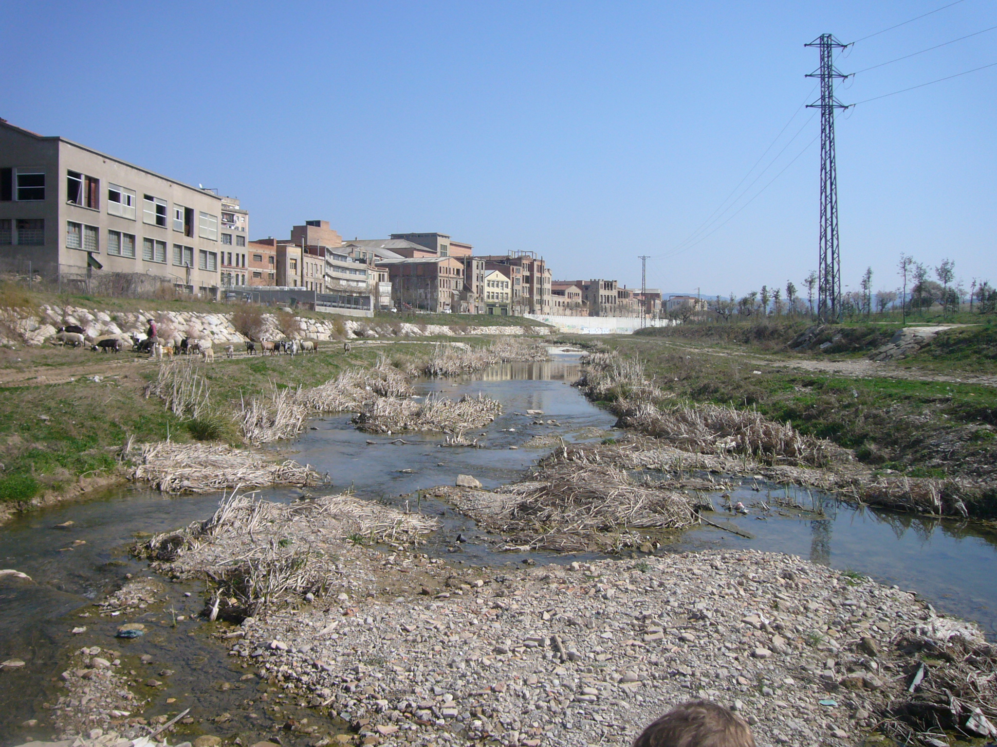 Anoia river in Igualada (Catalonia, Spain).